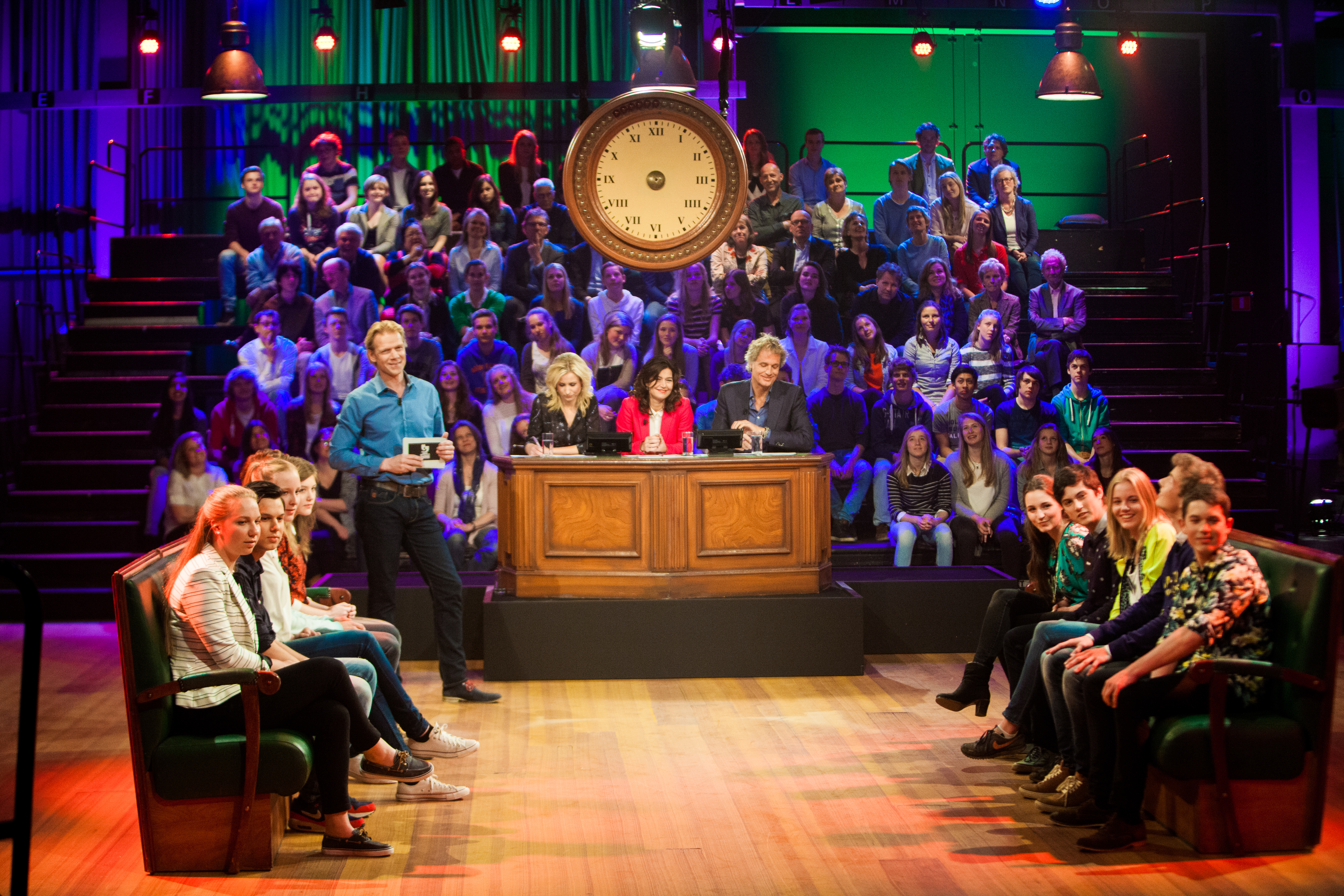 Final Op Weg naar het Lagerhuis with the Vara 2015